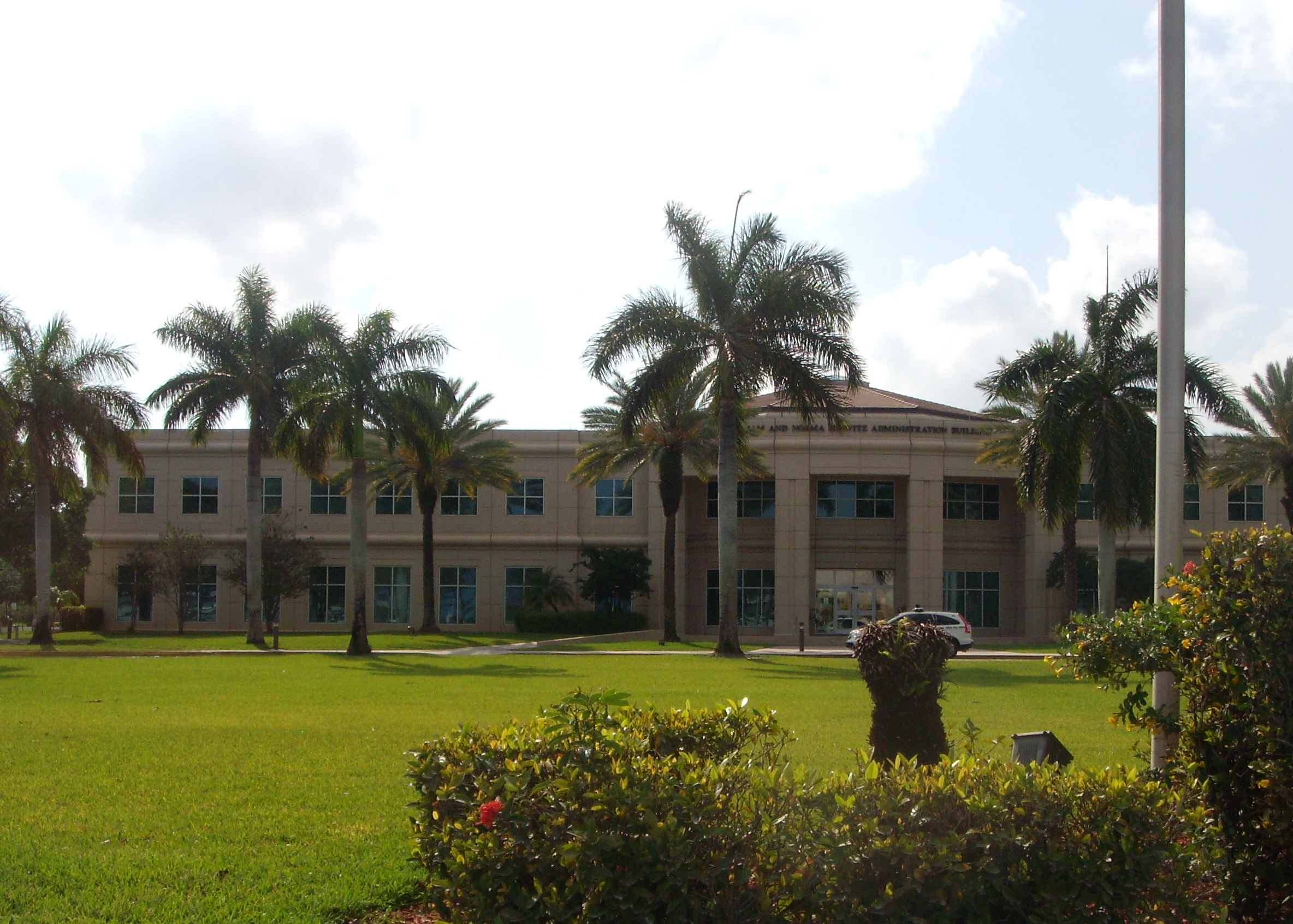 nsu horowitzfront